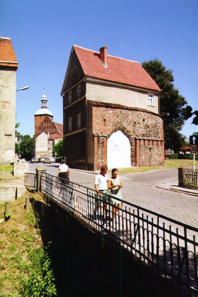 Muzeum Ziemi Szprotawskiej, outside view (The Museum of the Szprotawa Land, located inside the Brama Żagańska in the city of Szprotawa. Brama Żagańska is a historic town gate that doubled as a building.)